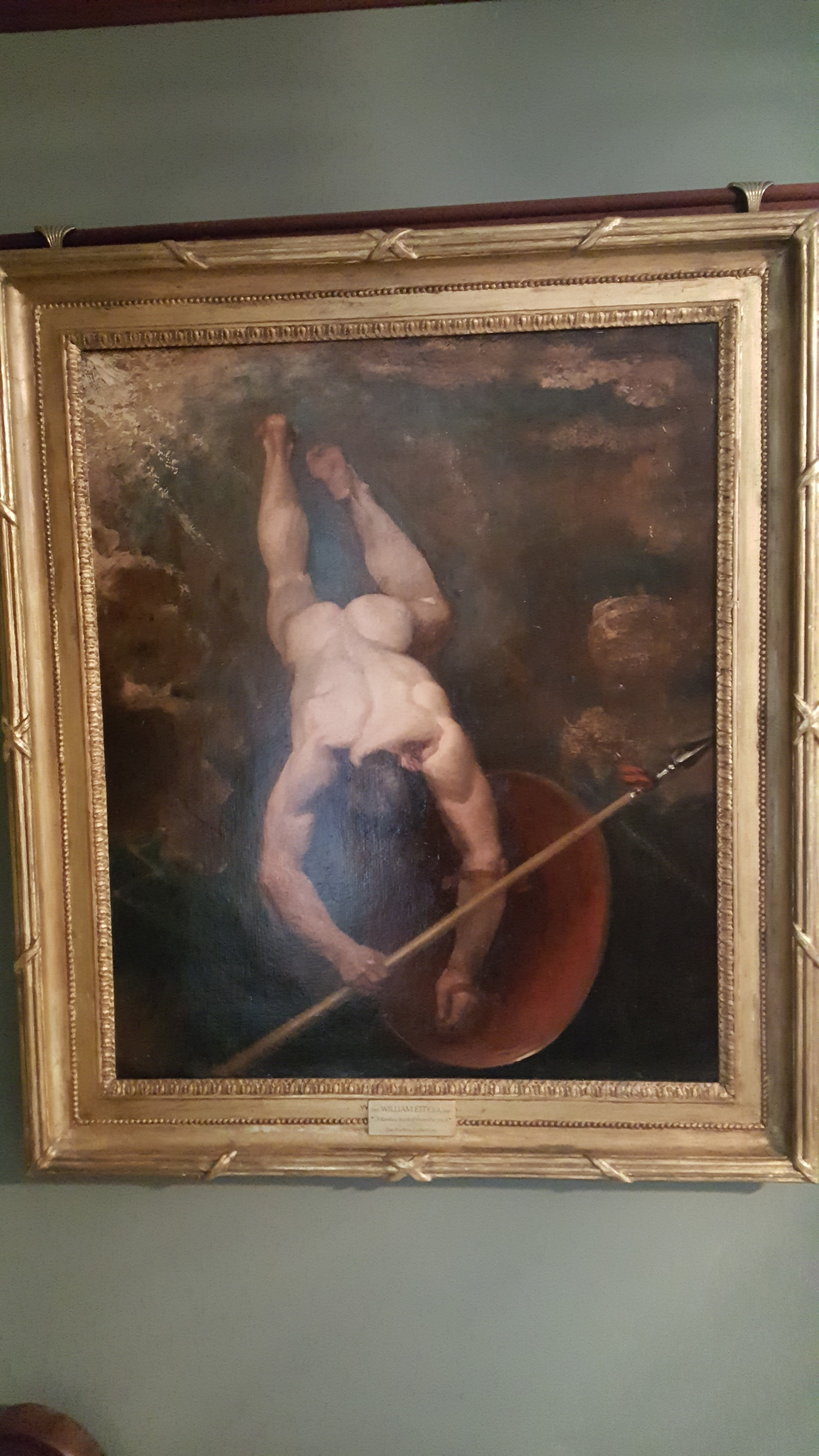 Manlius hurled from the rock by William Etty (1787-1849)